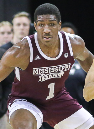 Photo by Chris Gillespie